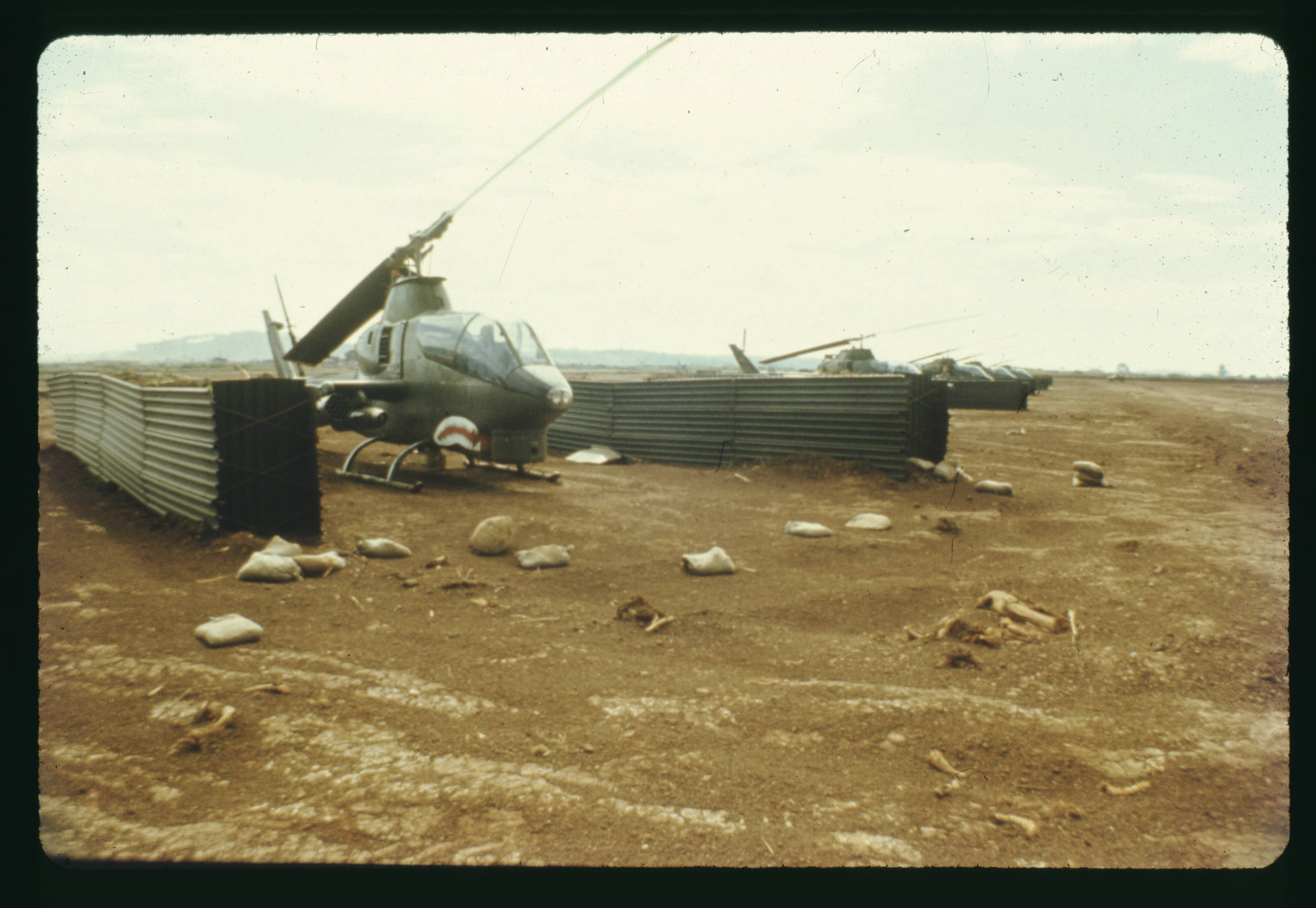 At Ban Me Thuot the 70th Engineer Battalion has been supporting one brigade of the 4th Infantry Division by providing helicopter parking and staging areas